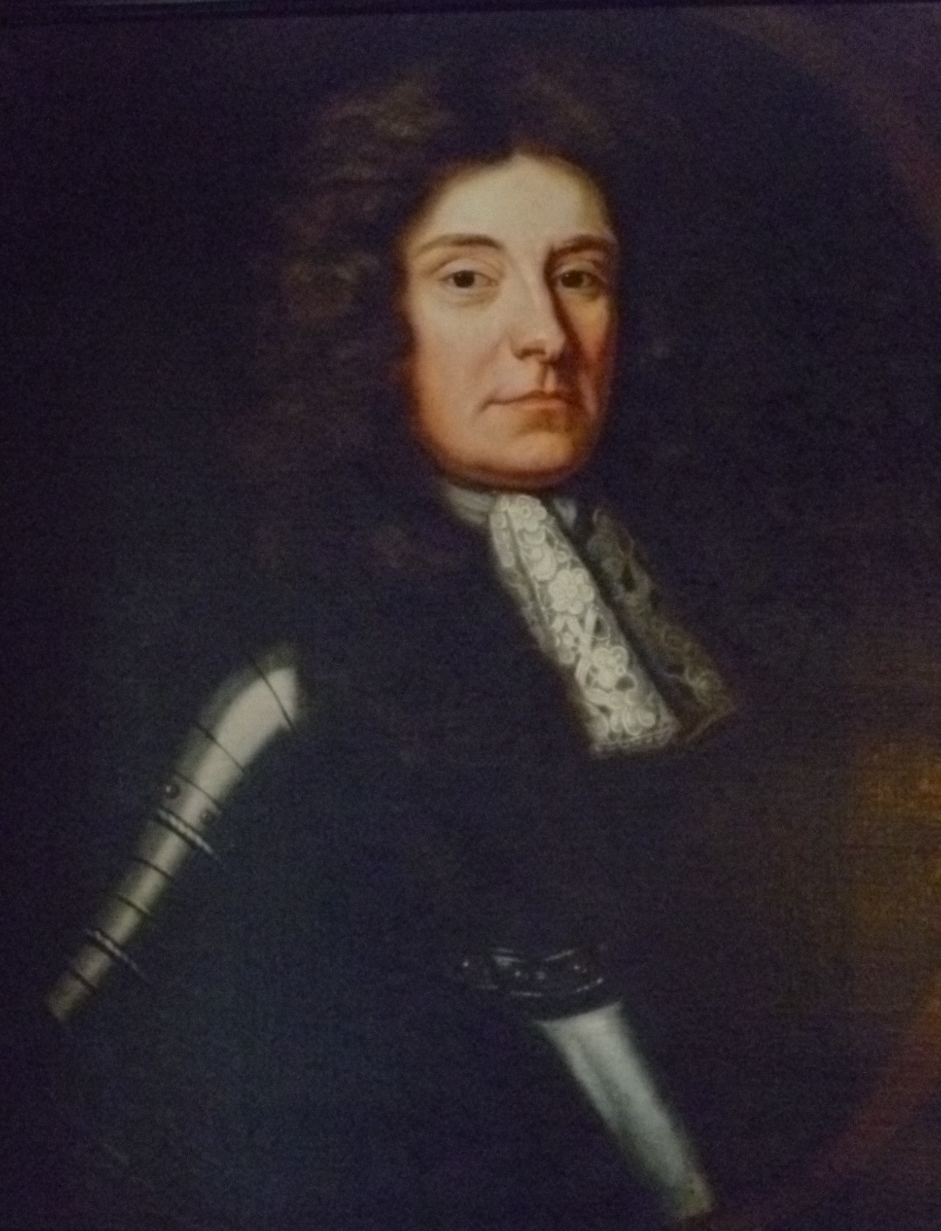 Portrait of Archibald Campbell, 9th Earl of Argyll (1629–1685) in Argyll's Lodging, Stirling.